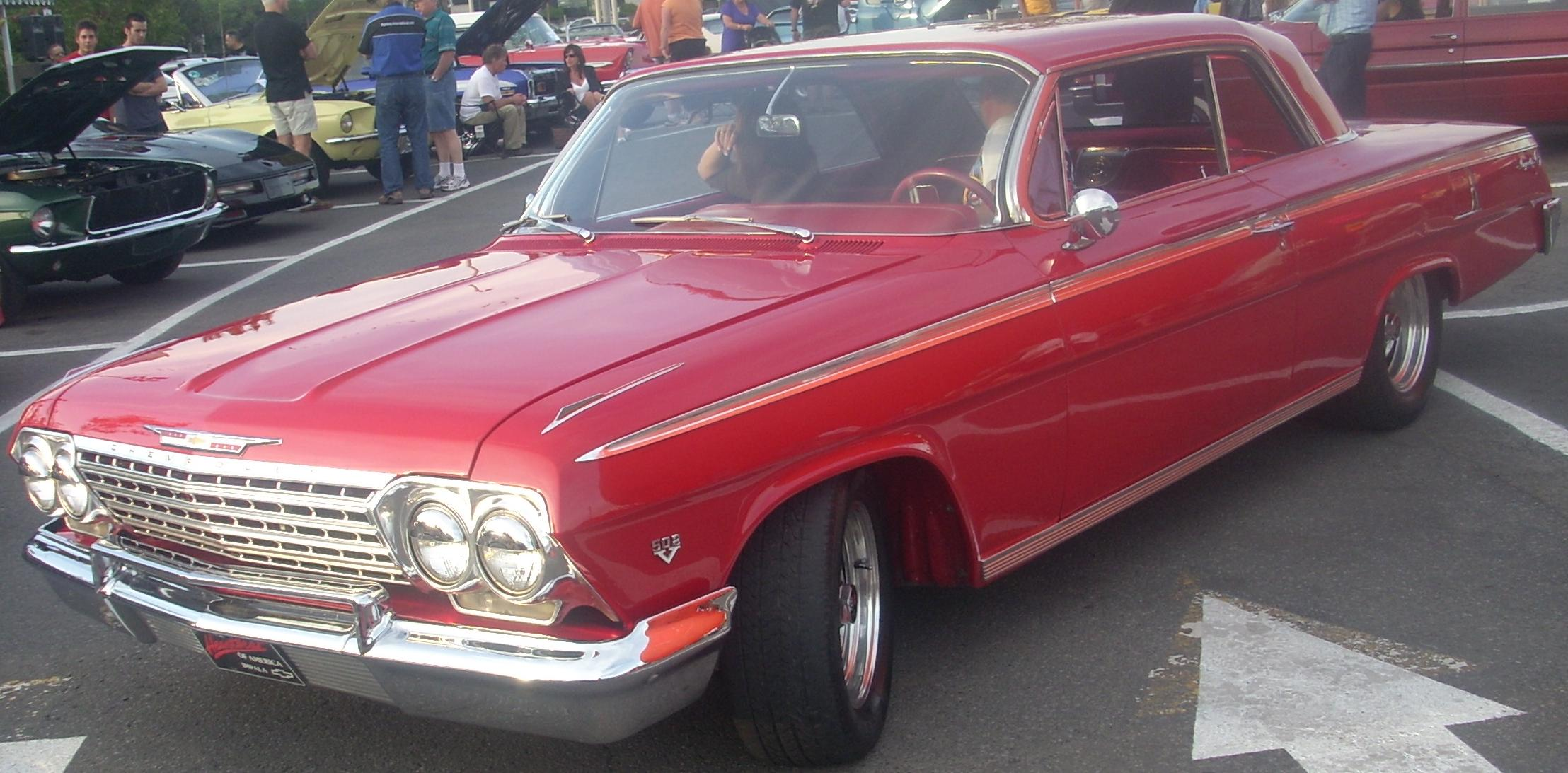 Chevrolet Impala photographed in Montreal, Quebec, Canada at Gibeau Orange Julep.